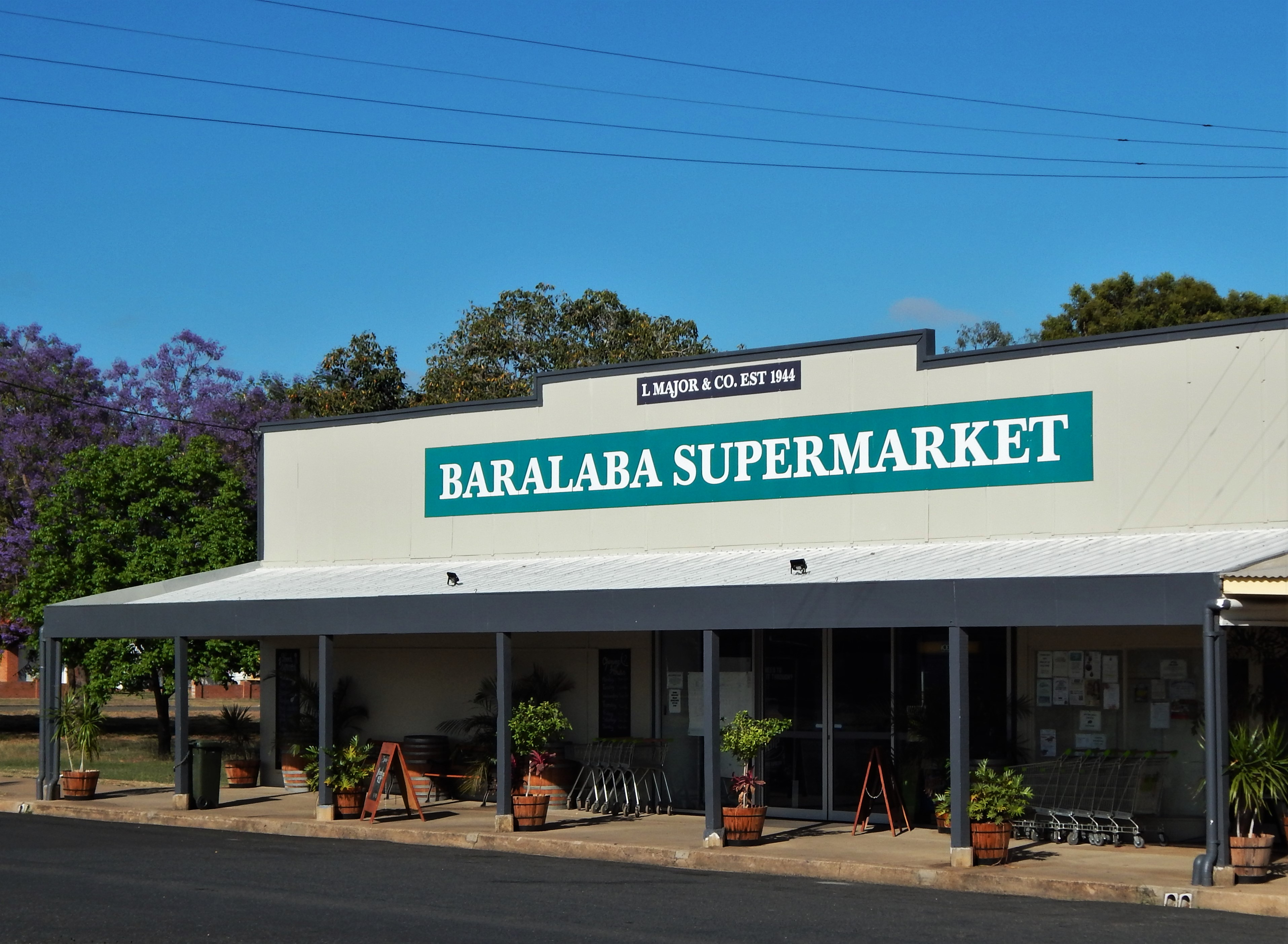 The local supermarket in Baralaba, Queensland